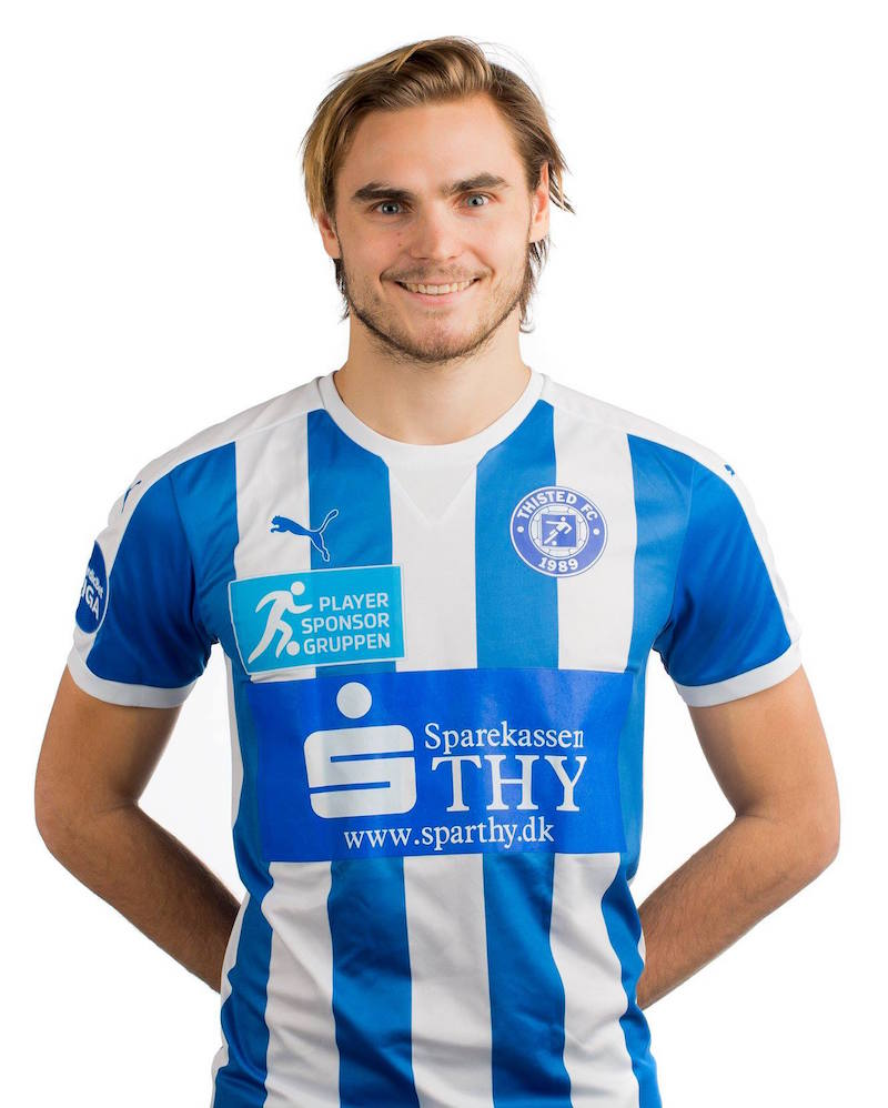 Image of Thisted FC Football Player Sakari Tukiainen